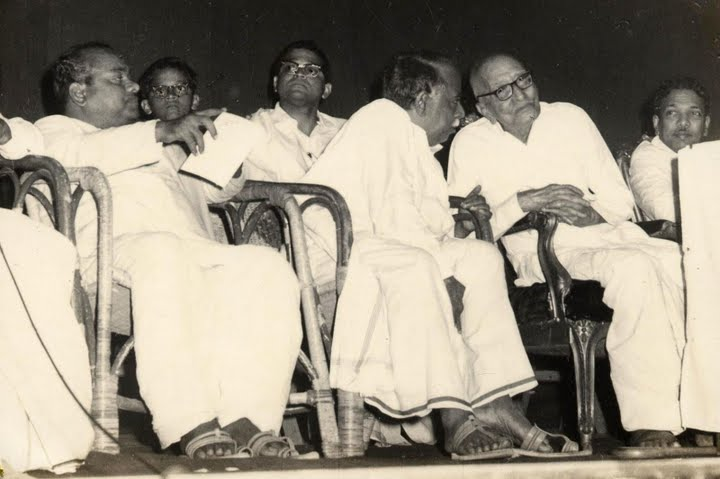 DMK leaders K. A. Mathialagan, V.P. Raman, C.N. Annadurai and M. Karunanidhi with Swatantara Party founder C. Rajagopalachari (Rajaji). Photo taken at a private function.